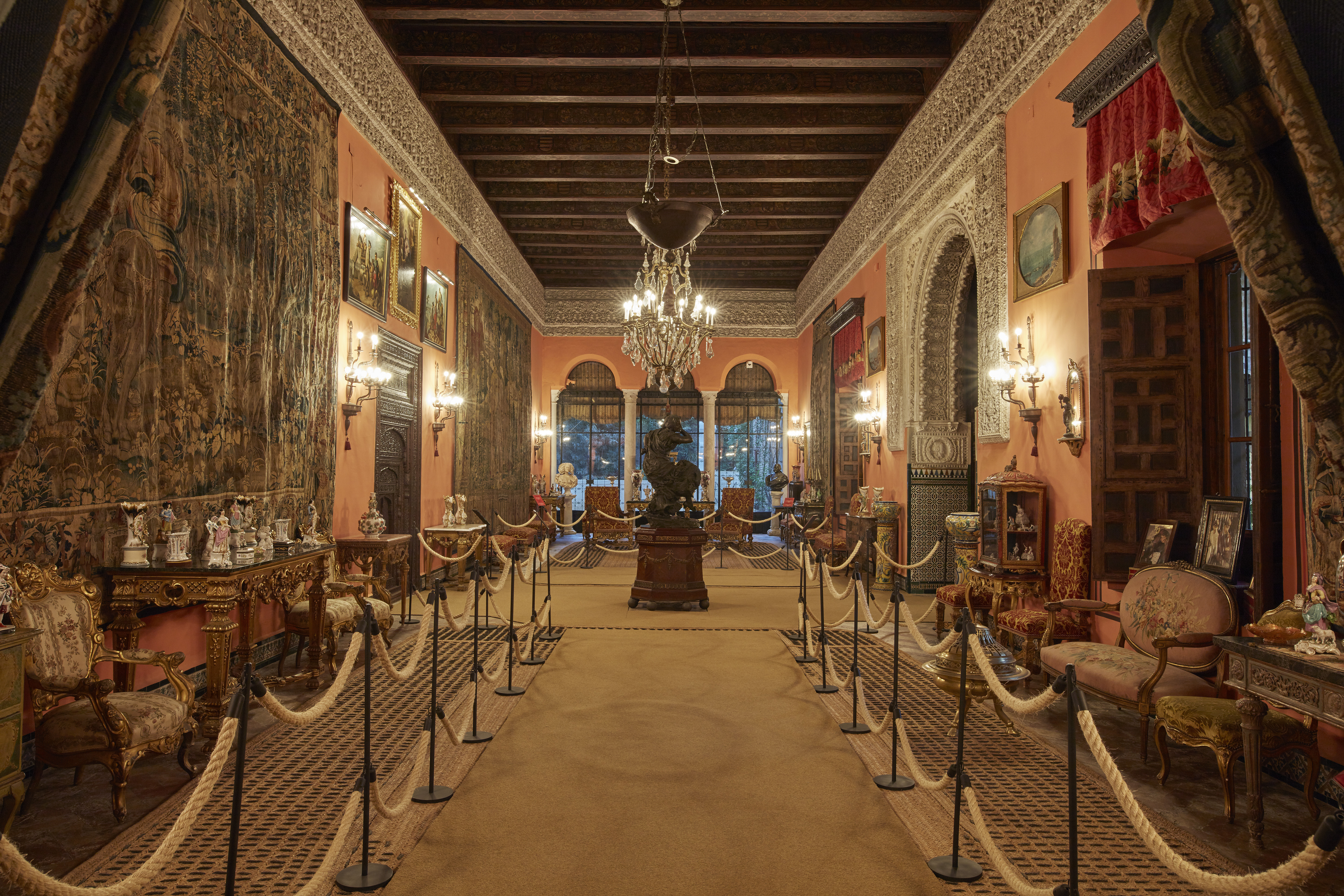 Gypsy Salon